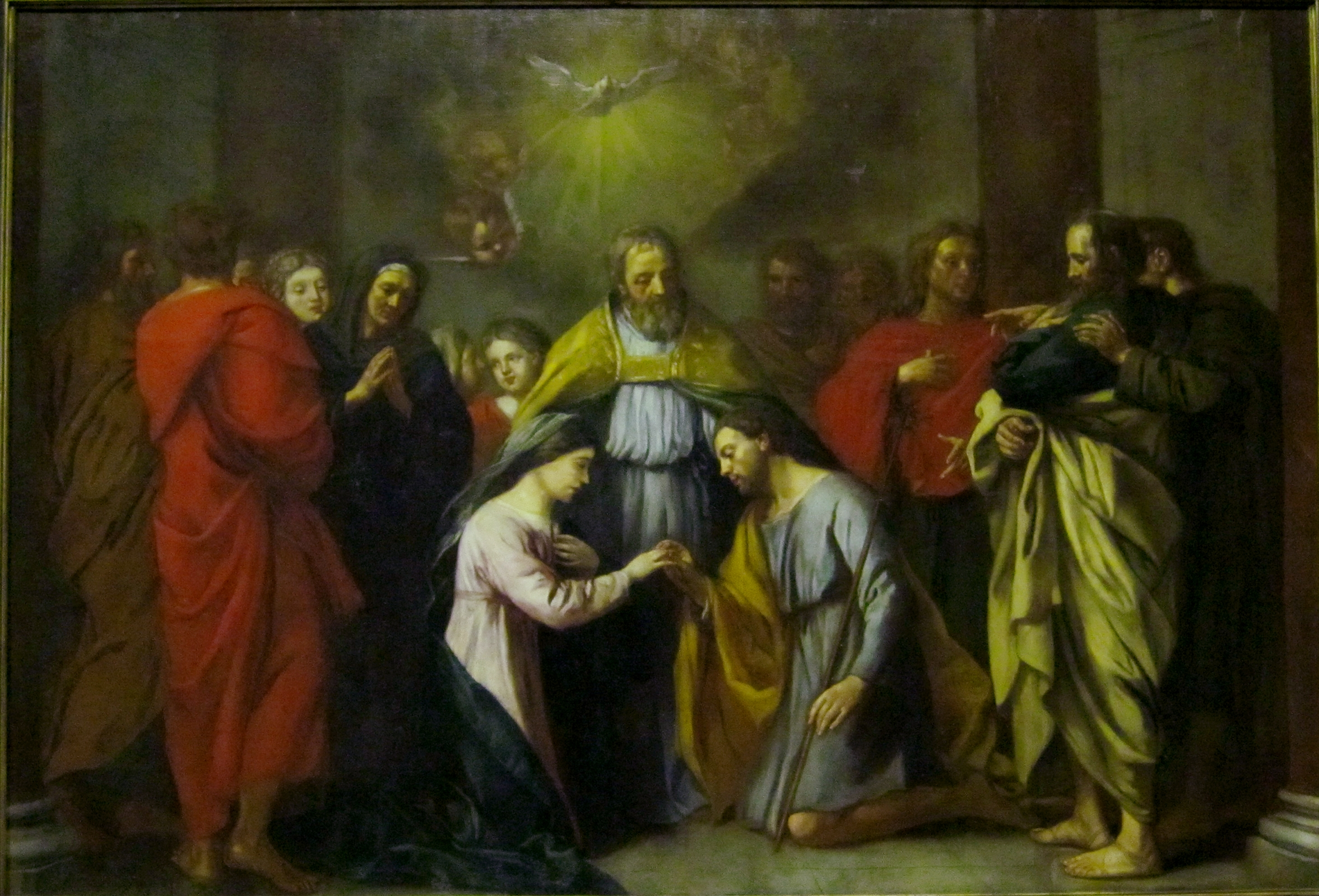 The Marriage of the Virgin